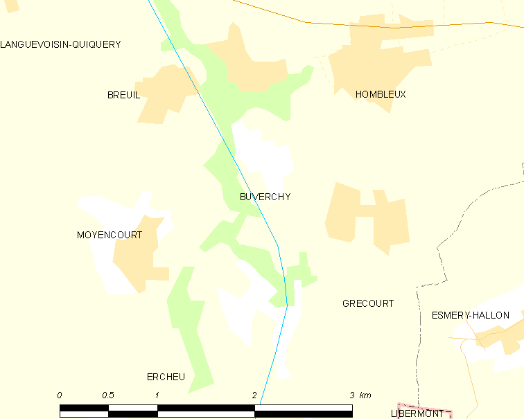 Map of French municipality Buverchy